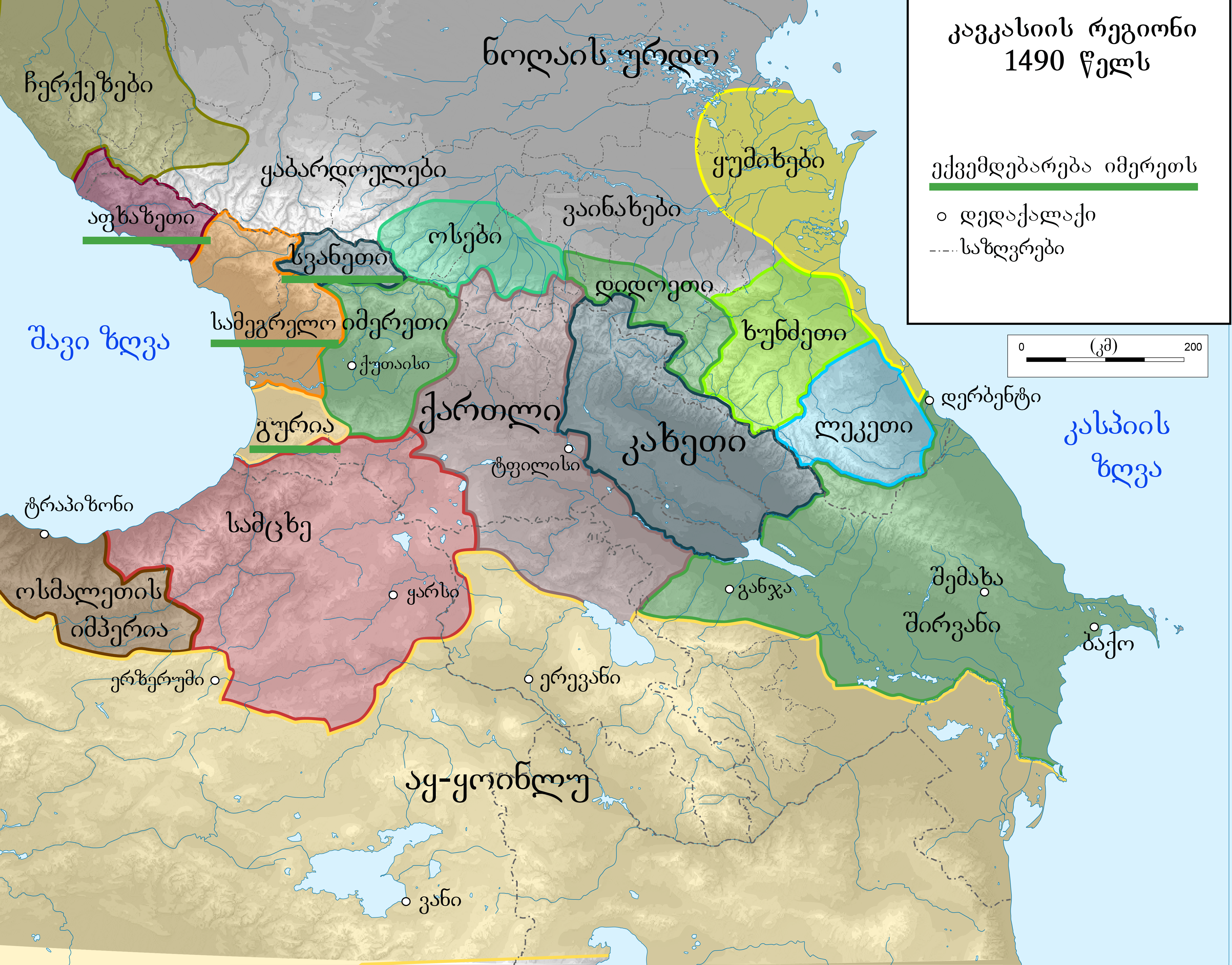 Map of Caucasus Region 1490 (Georgian).